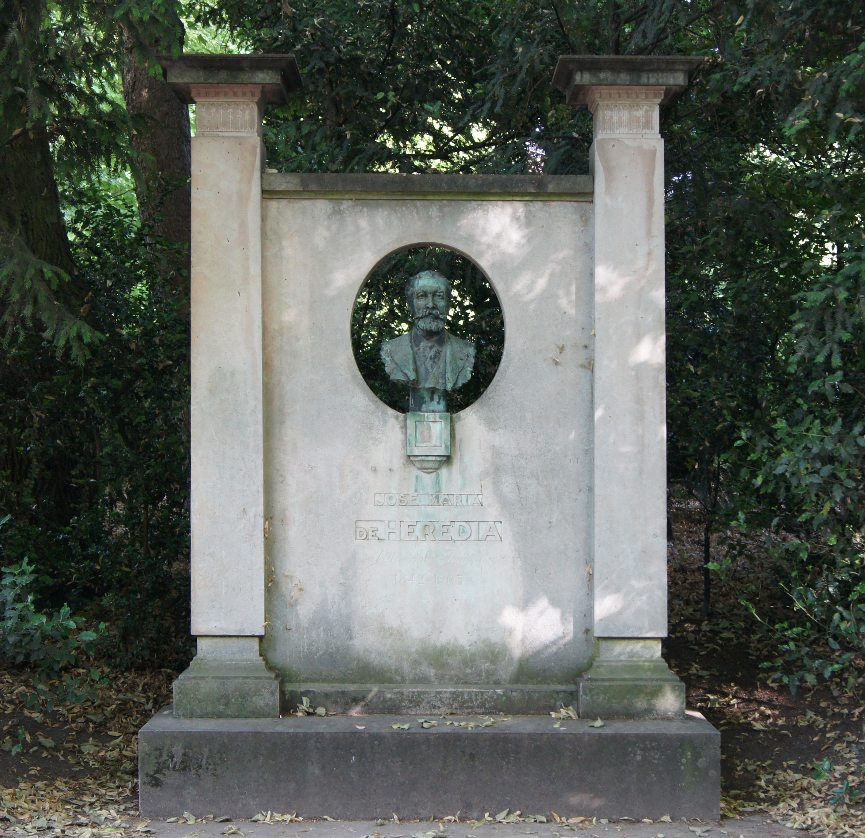 Monument to José-Maria de Heredia (1842-1905), french poet, Jardin du Luxembourg, Paris